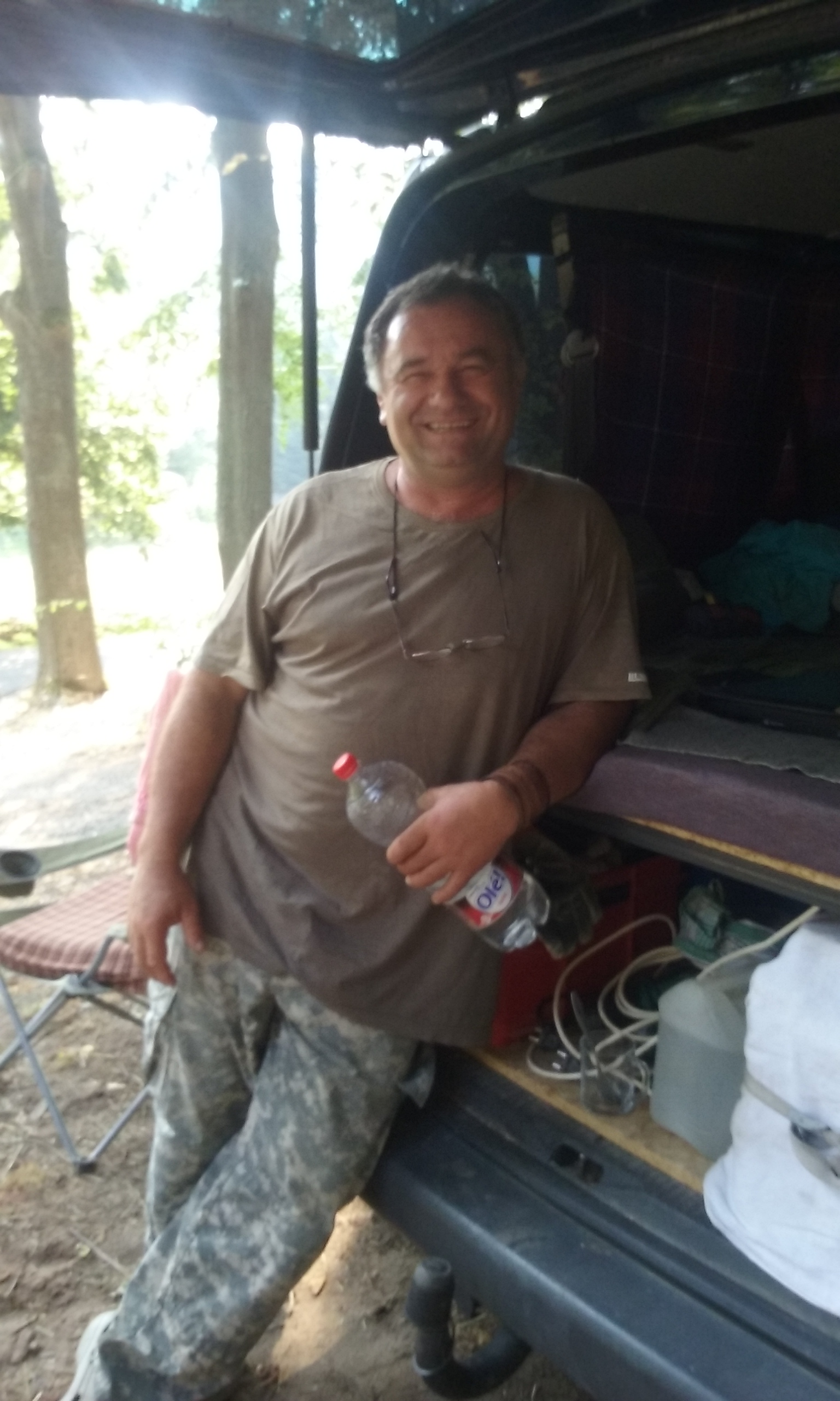 Jan Bartoloměj Štěrba in Nečtiny, Plzeň-North District, Czech Republic. Personality rights warningAlthough this work is freely licensed or in the public domain, the person(s) shown may have rights that legally restrict certain re-uses unless those depicted consent to such uses. In these cases, a model release or other evidence of consent could protect you from infringement claims.